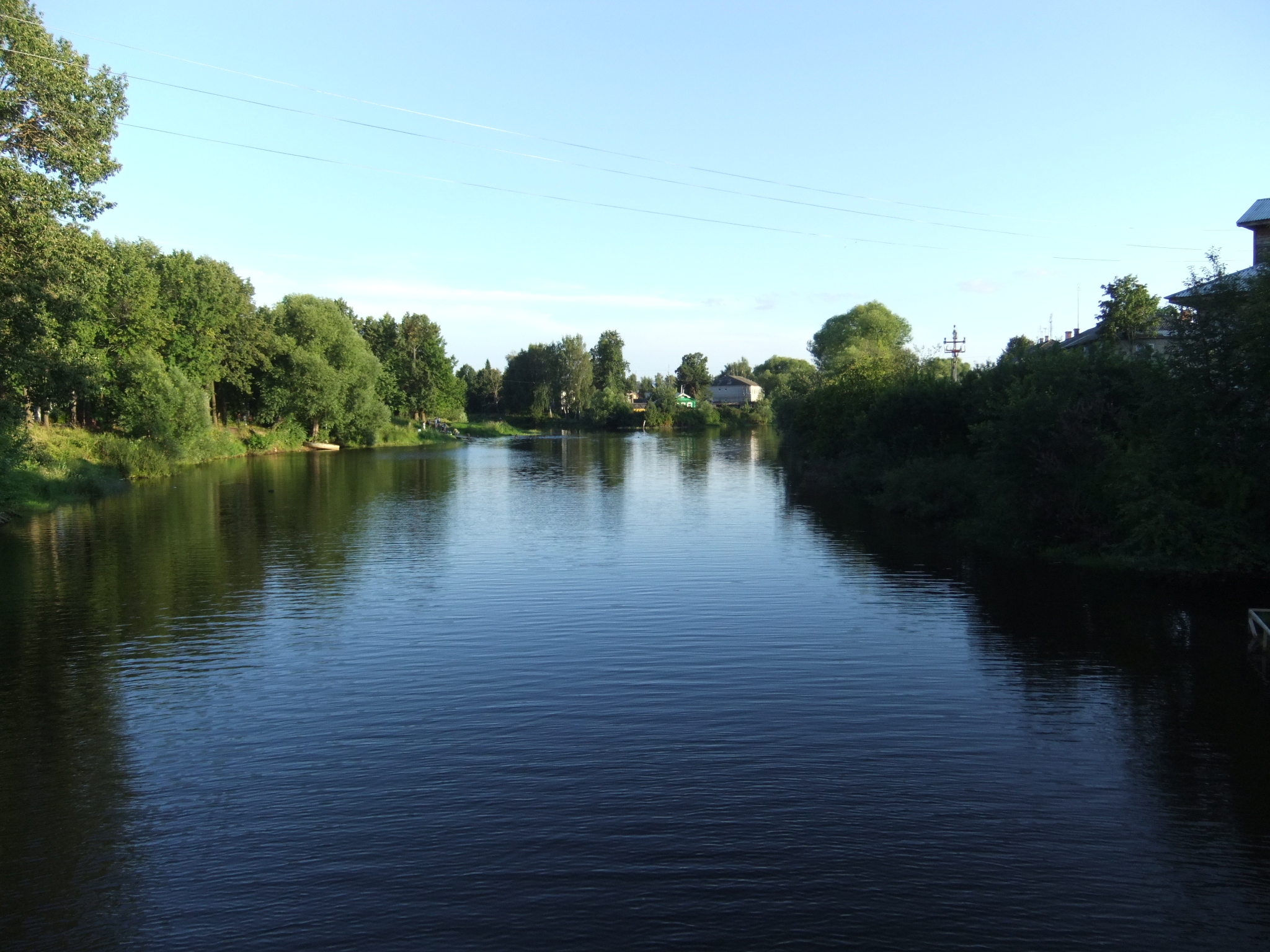 The Pertomka River in Poshekhonye, near Trinity Cathedral